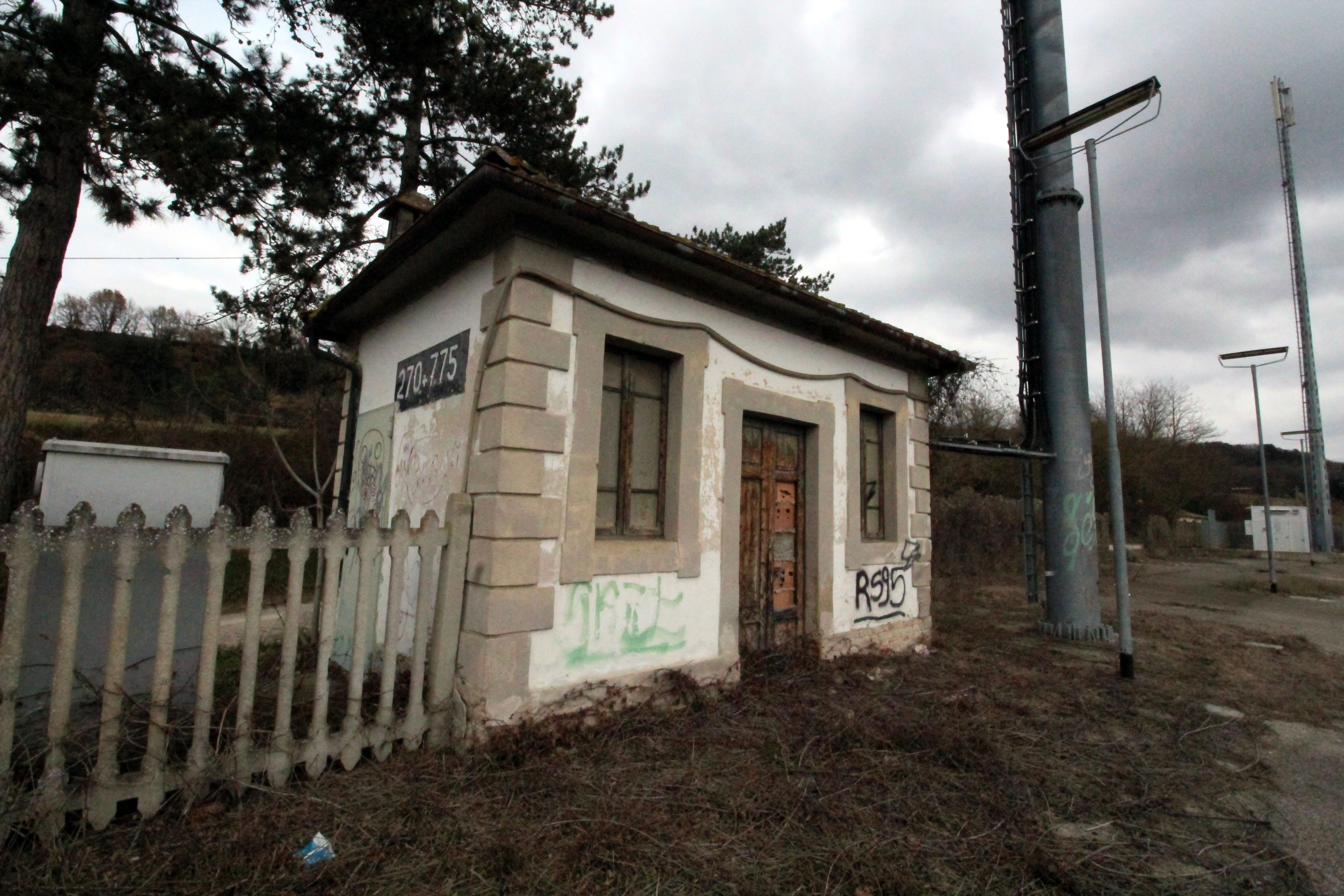 ex-Train station of Staggia Senese, hamlet of Poggibonsi, Province of Siena, Tuscany, Italy